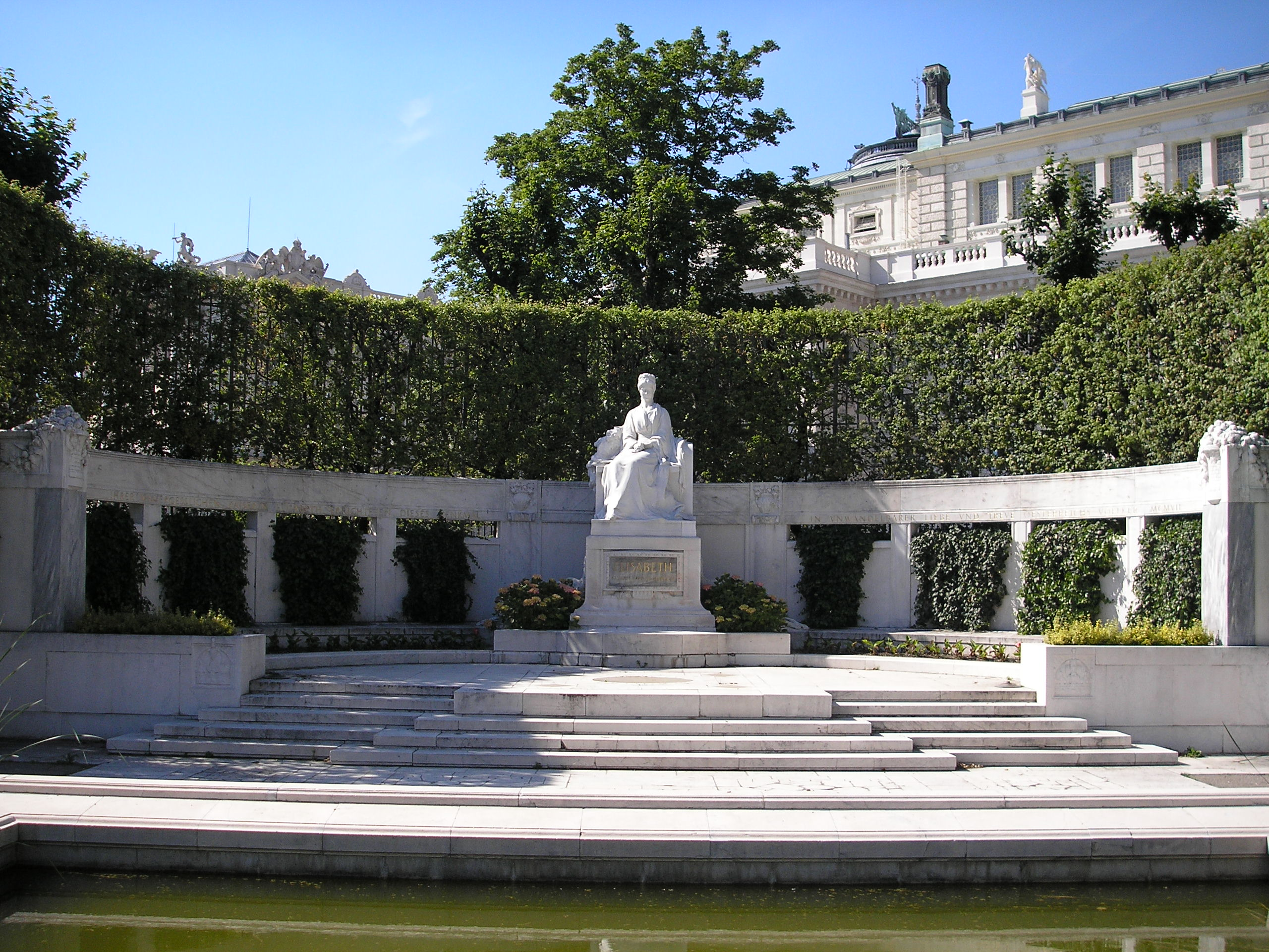 Monument to Empress Elisabeth of Austria (Sisi), in the Volksgarten close to the Hofburg imperial palace in Vienna.